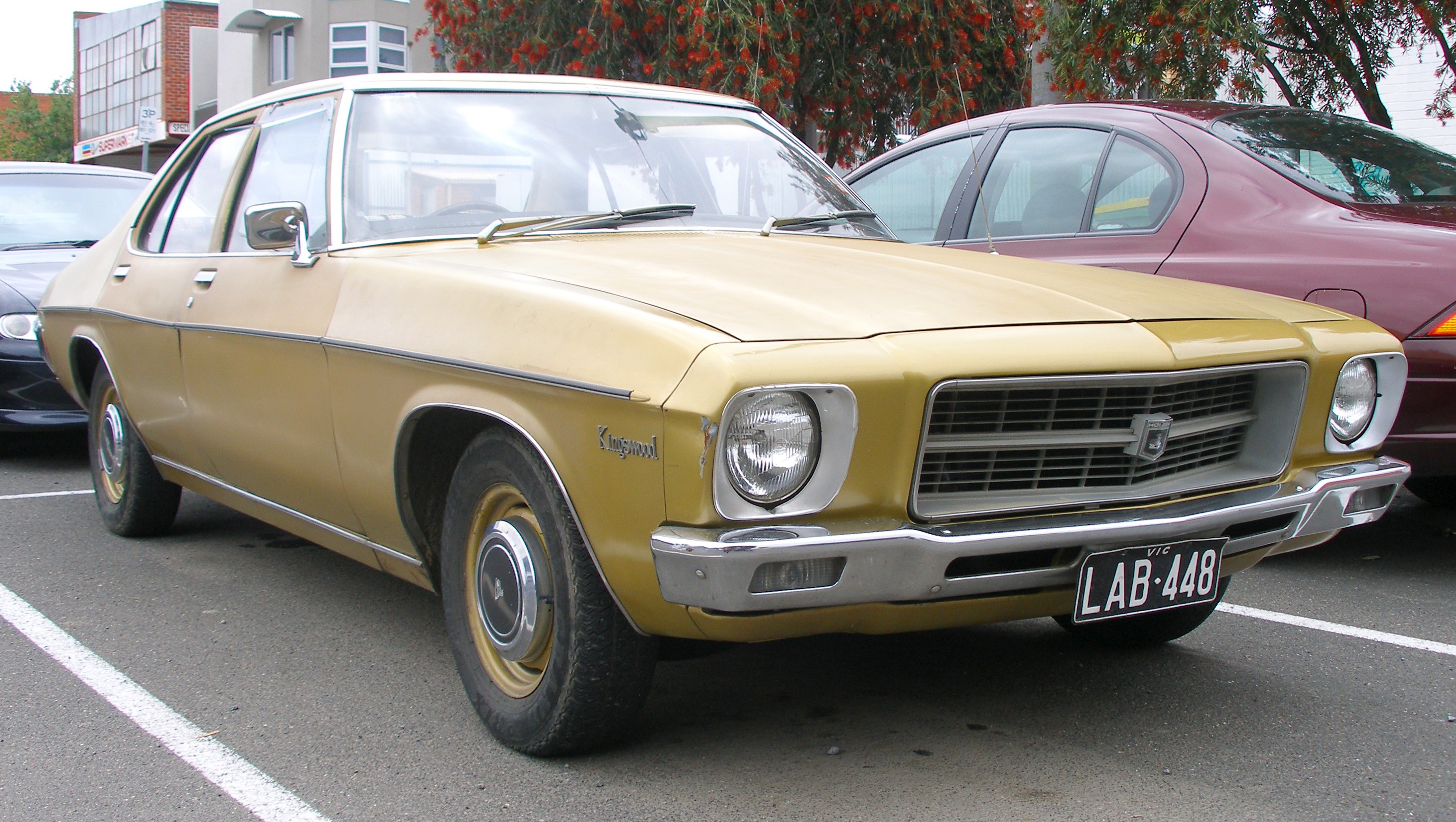 1971-1974 Holden HQ Kingswood sedan, photographed in Victoria, Australia.